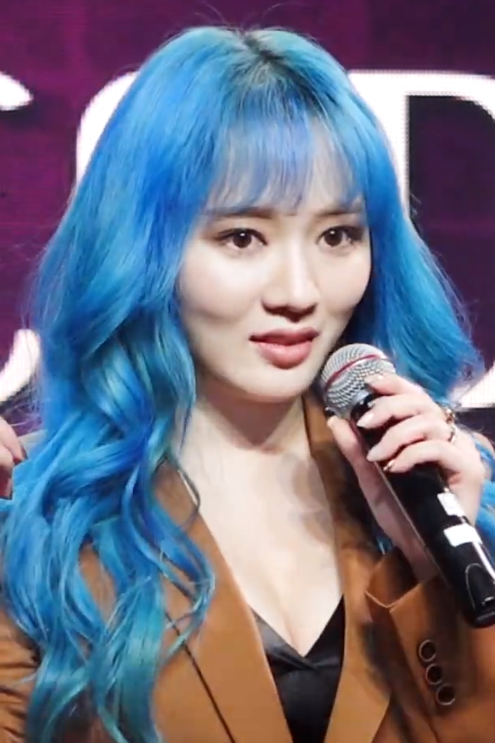 Lee So-jung at a showcase on October 22, 2019.